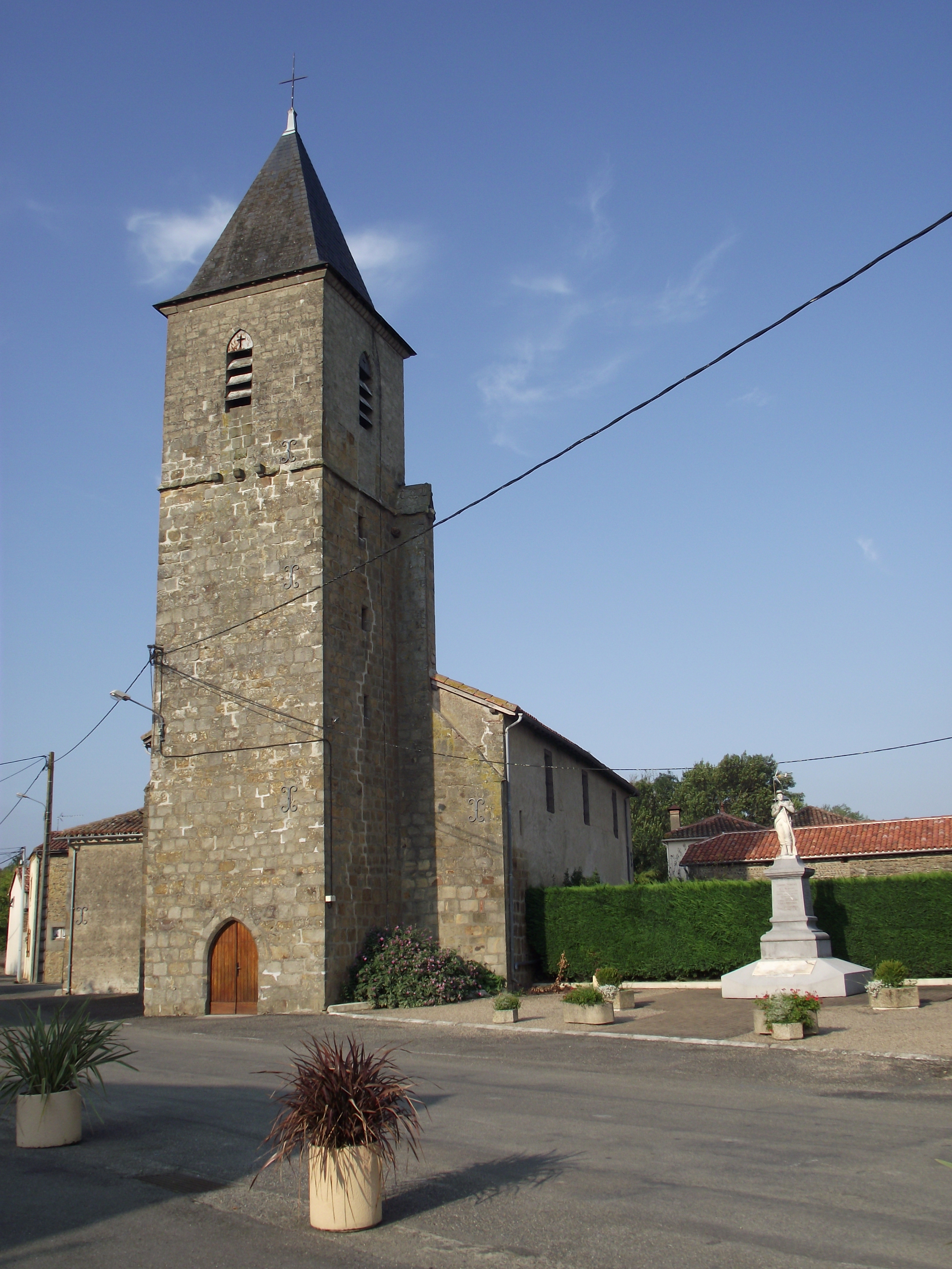 Church, Tarsac, Gers, France.JPG.JPG